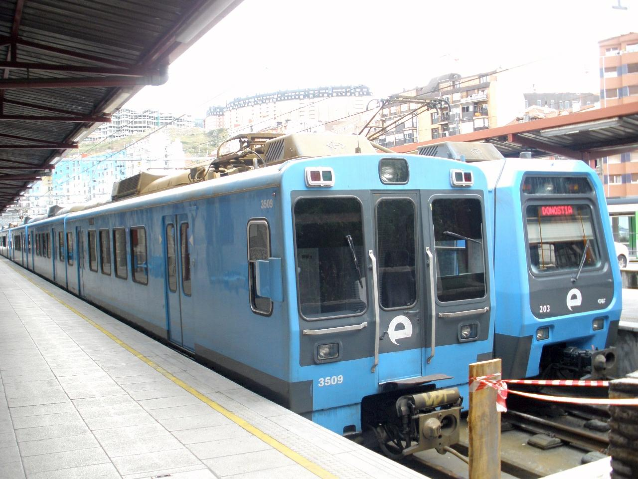 Unidades de EuskoTren estacionadas en Atxuri (Bilbao, País Vasco, España)